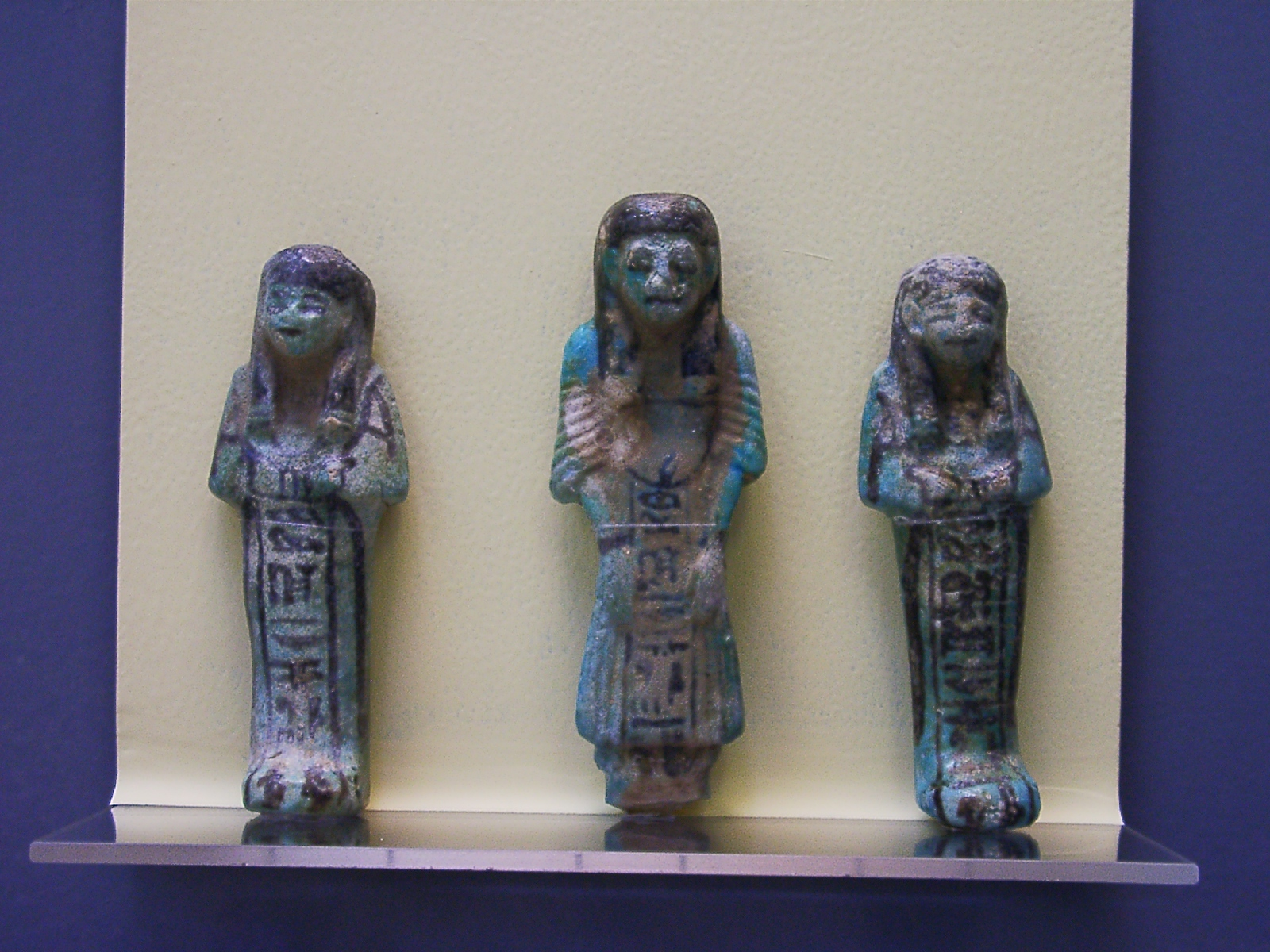 "Low Tech" ushabtis of lesser quality in Déri Múzeum, Debrecen, Hungary